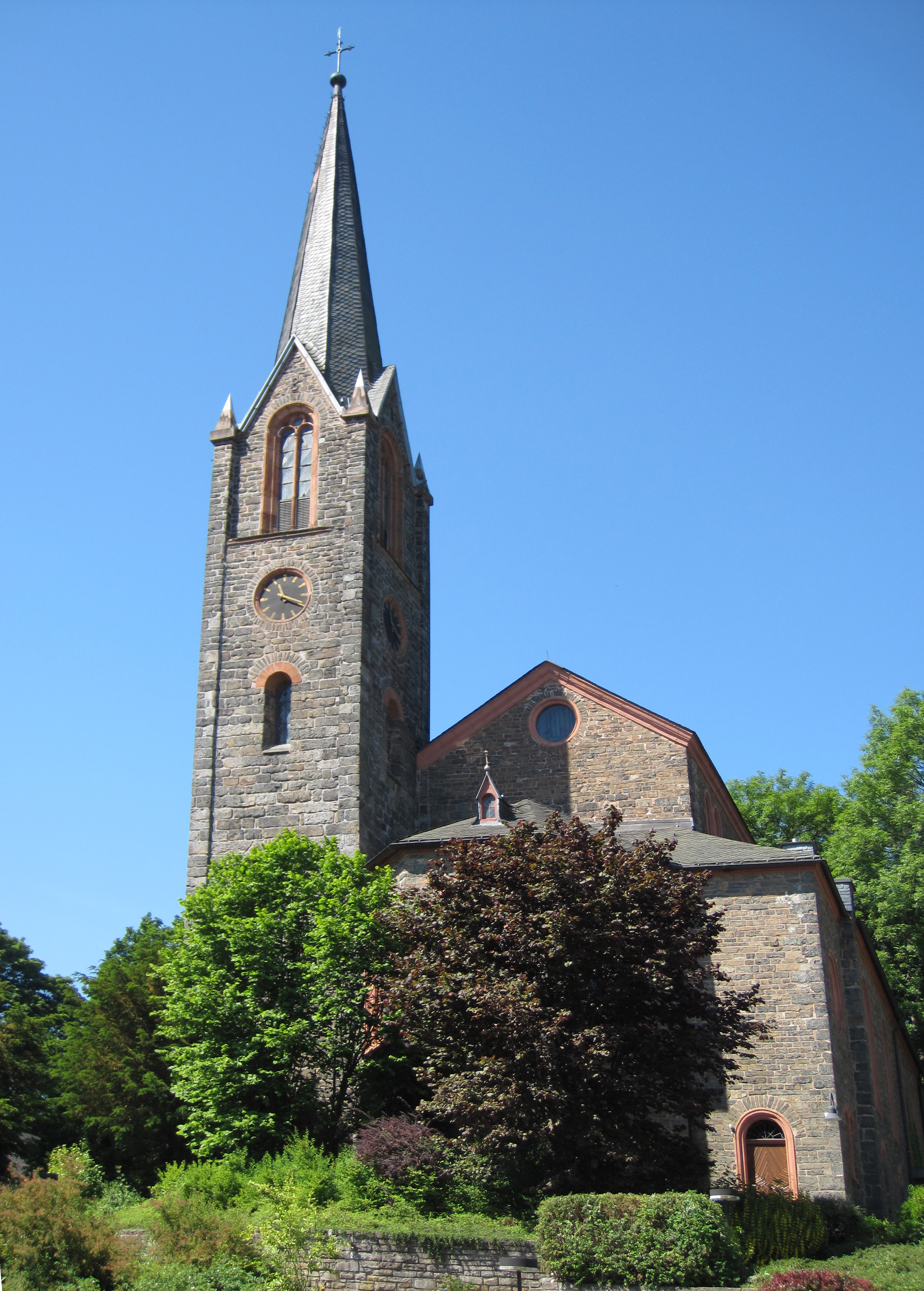 Cultural heritage monument in Bassum Church